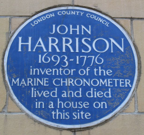 This blue plaque remembering John Harrison is located on the south side of 11 Red Lion Square, Holborn, London, England.